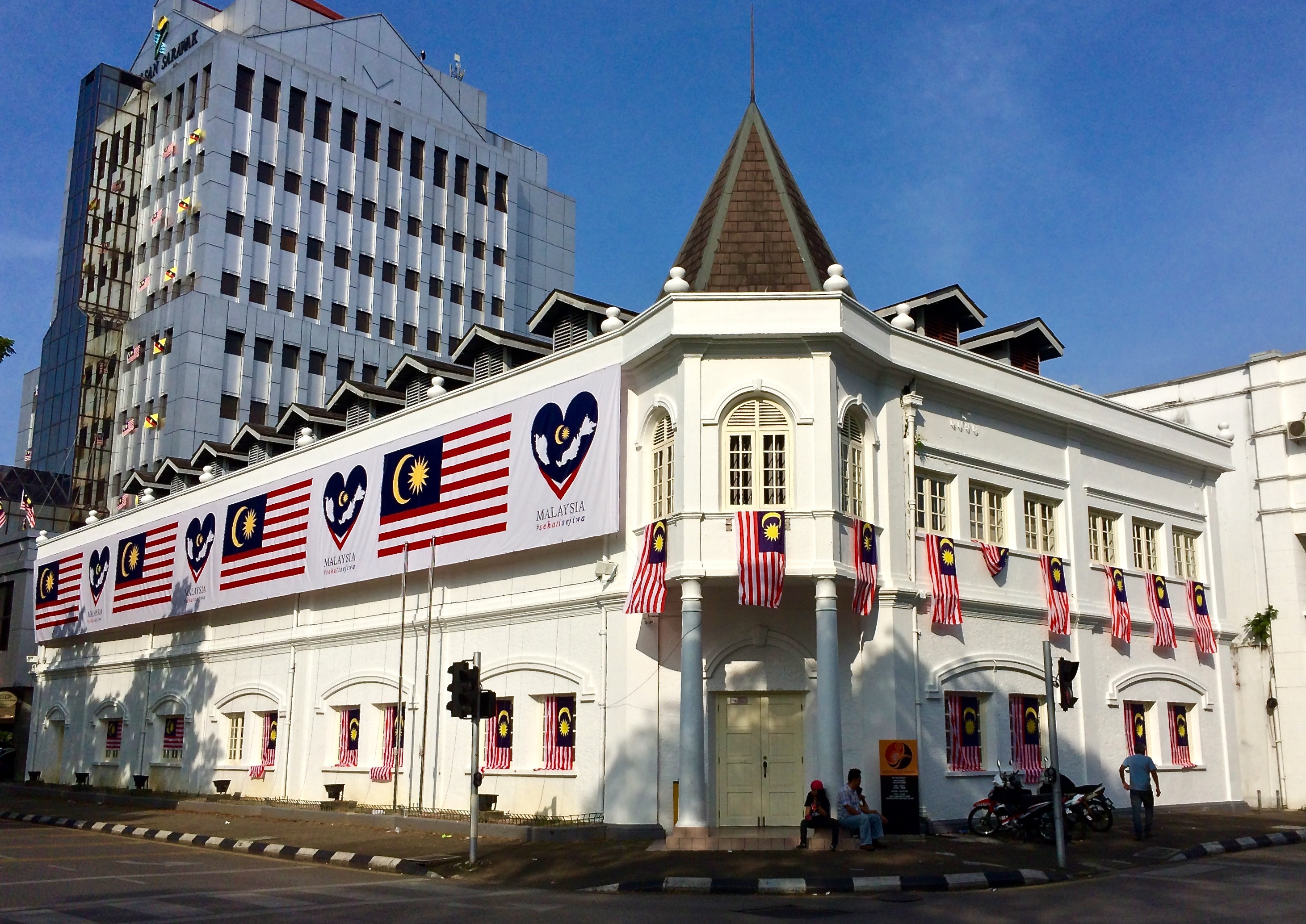 The Kuching Resident and District Office viewed from an angle. Note the angled entrance typical of a number of government buildings during the Brooke era.